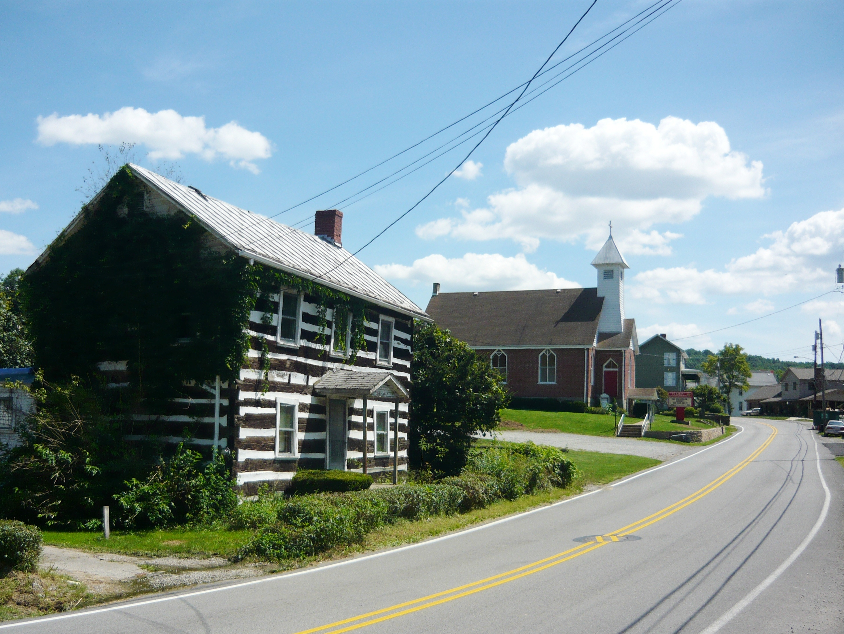 Looking north on Main Street, Arona, Westmoreland County, Pennsylvania.